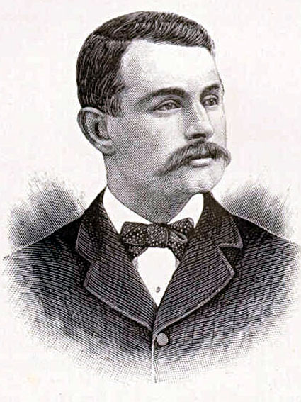 Henry S. Harris, US Representative from New Jersey